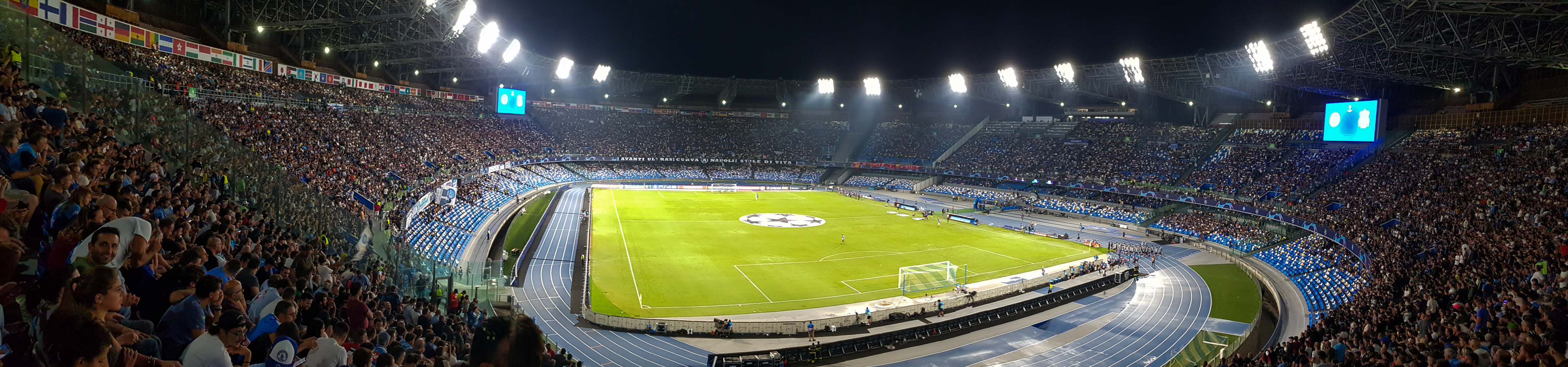 Panorama of the "San Paolo" Stadium in Naples (Italy) during S.S.C. Napoli v Liverpool F.C. (2-0) game, Matchday 1 of 2019–20 UEFA Champions League group stage, group E, September 17, 2019.